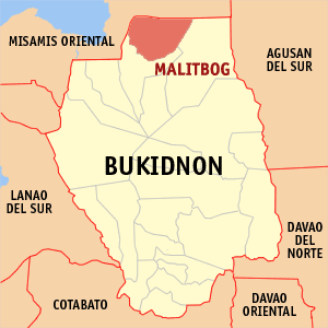 Map of the Bukidnon showing the location of Malitbog